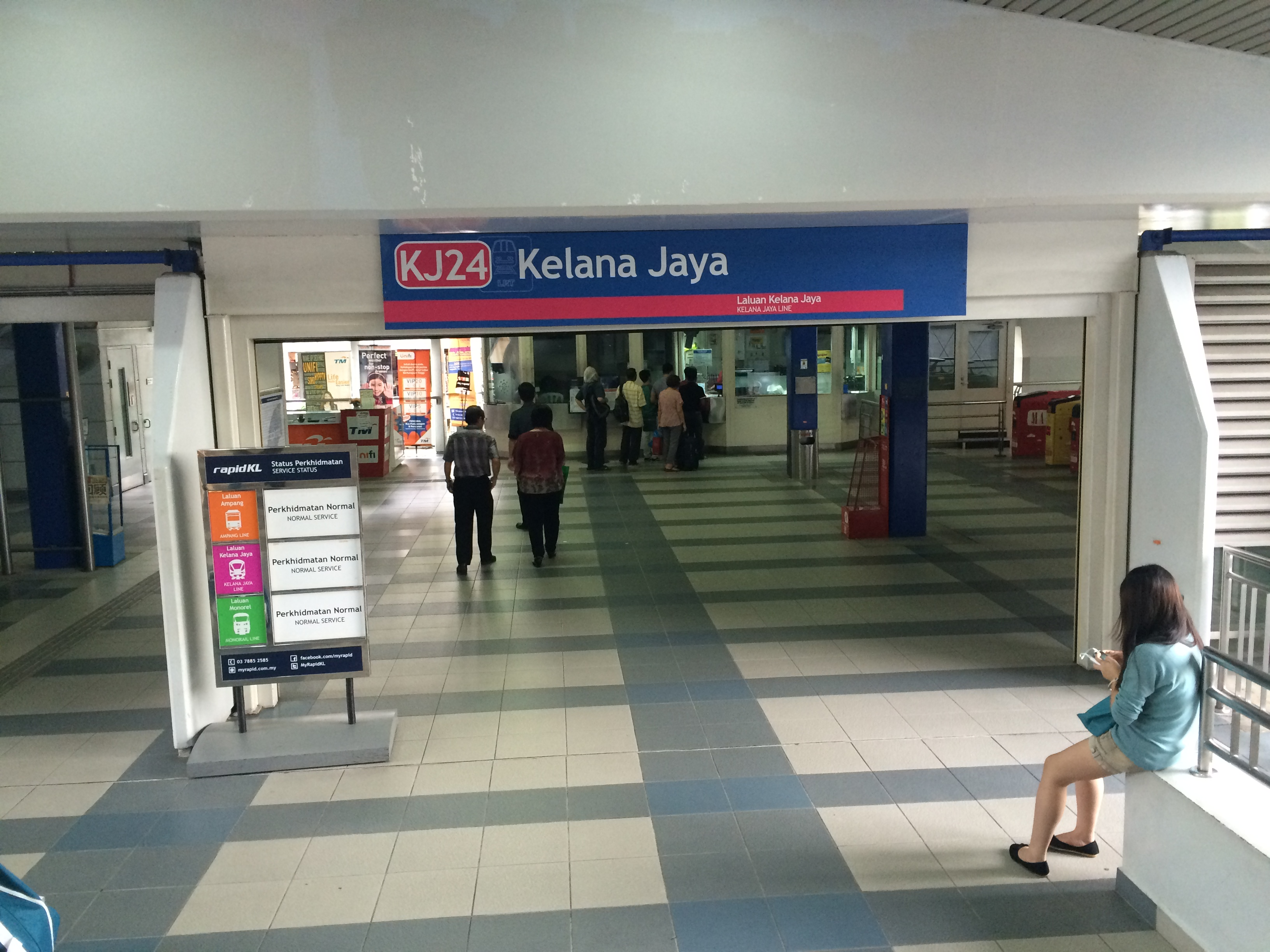 Kelana Jaya LRT - 2